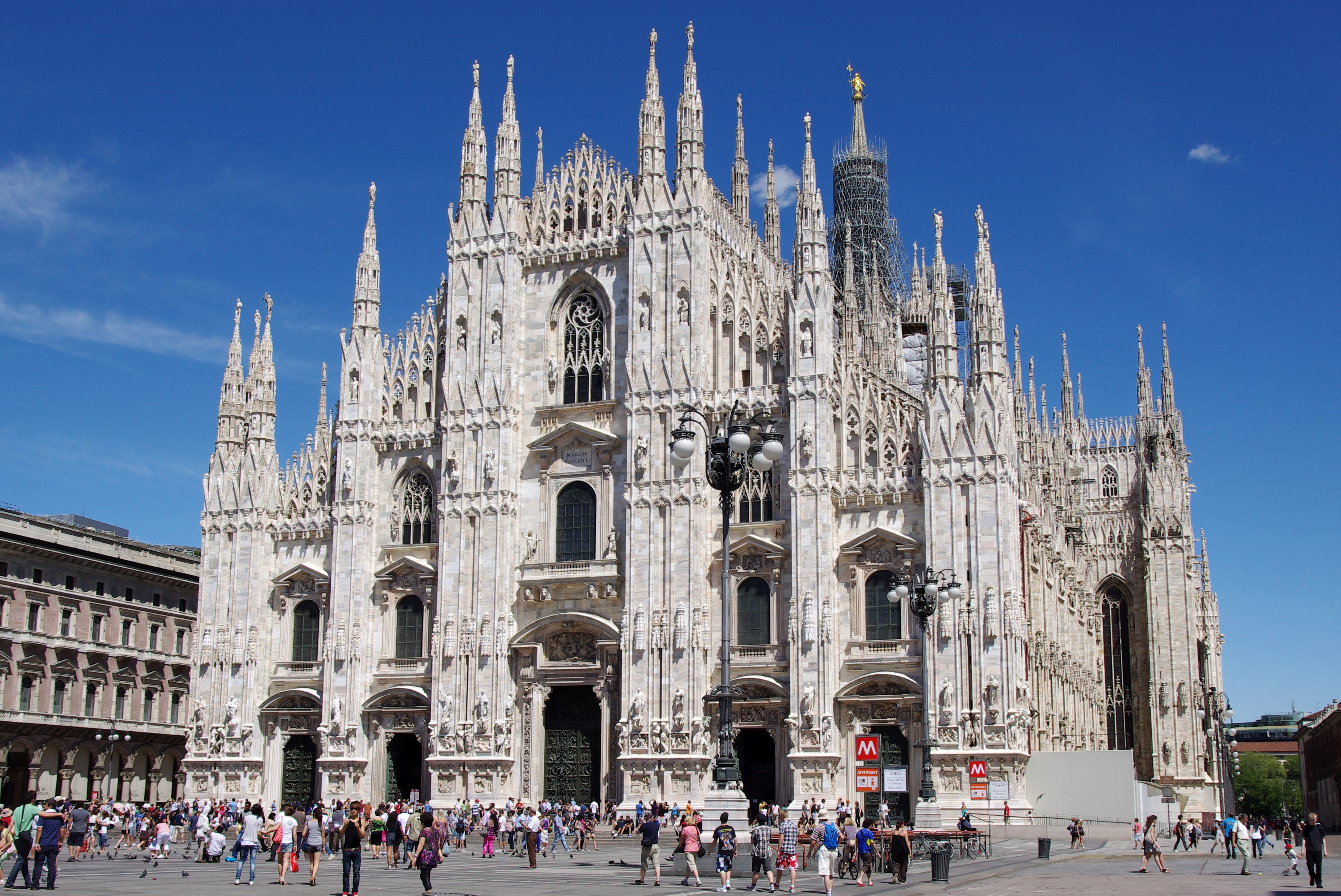 Milan Cathedral